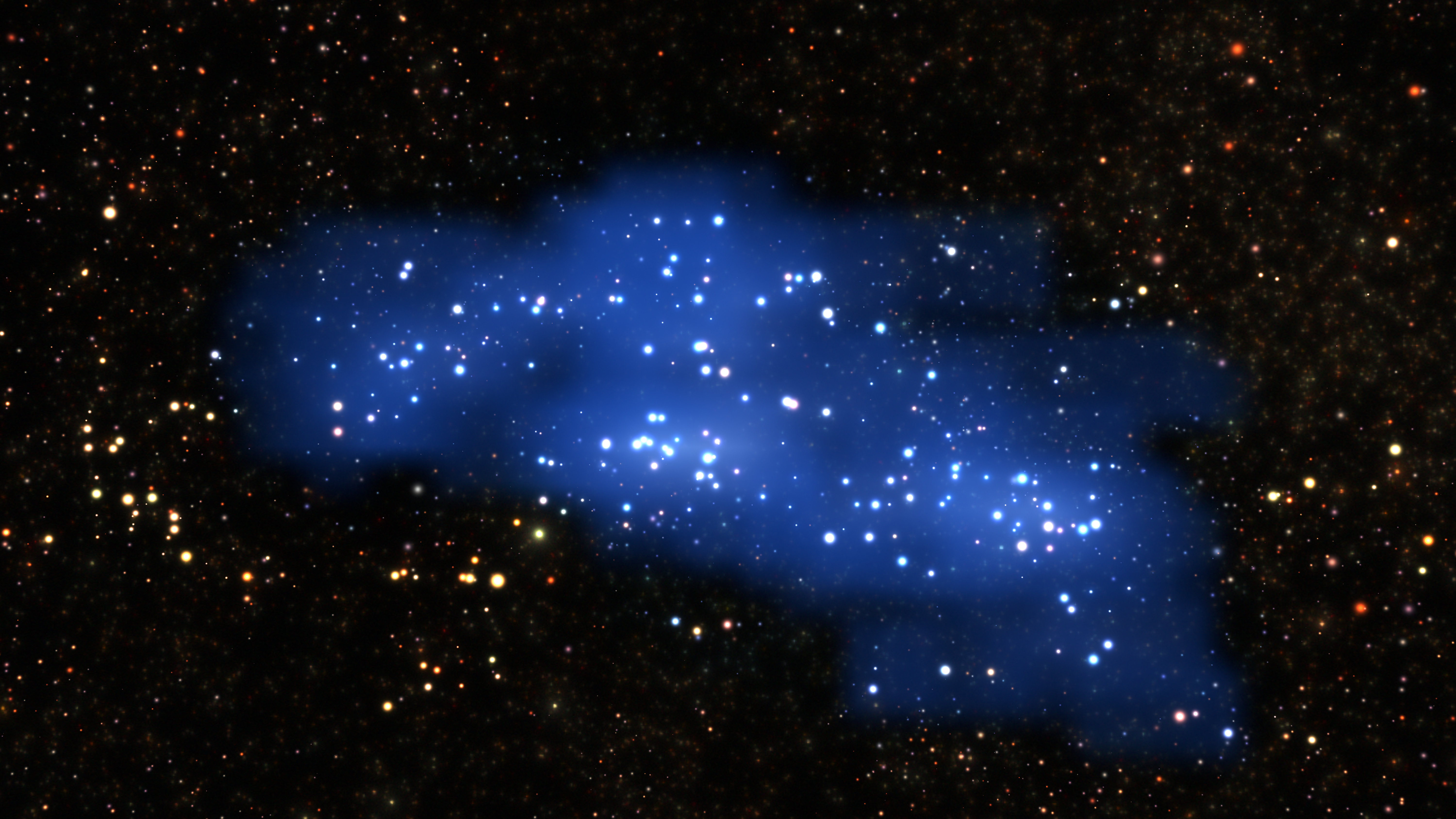 An international team of astronomers using the VIMOS instrument of ESO’s Very Large Telescope have uncovered a colossal structure in the early Universe. This galaxy proto-supercluster — which they nickname Hyperion — was unveiled by new measurements and a complex examination of archive data. This is the largest and most massive structure yet found at such a remote time and distance — merely 2 billion years after the Big Bang. This visualization shows Hyperion and is based on real data.